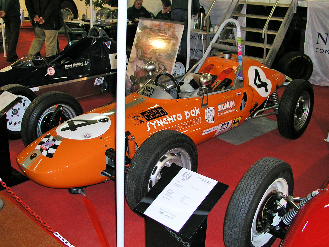 Formula Vee single seater racing car, made in Belgium by Application Polyester Armé de Liége; left front-side view